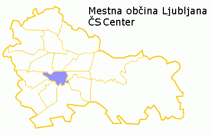 author: Navportus 18:45, 26 June 2007 (UTC) description: area of Center, quarter of Ljubljana